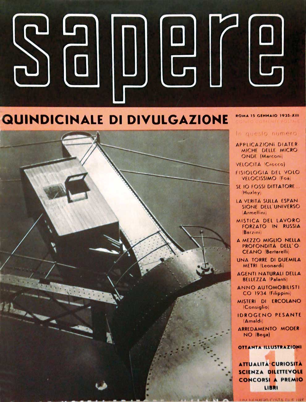 Cover of the first issue of the "Sapere" magazine (1935)